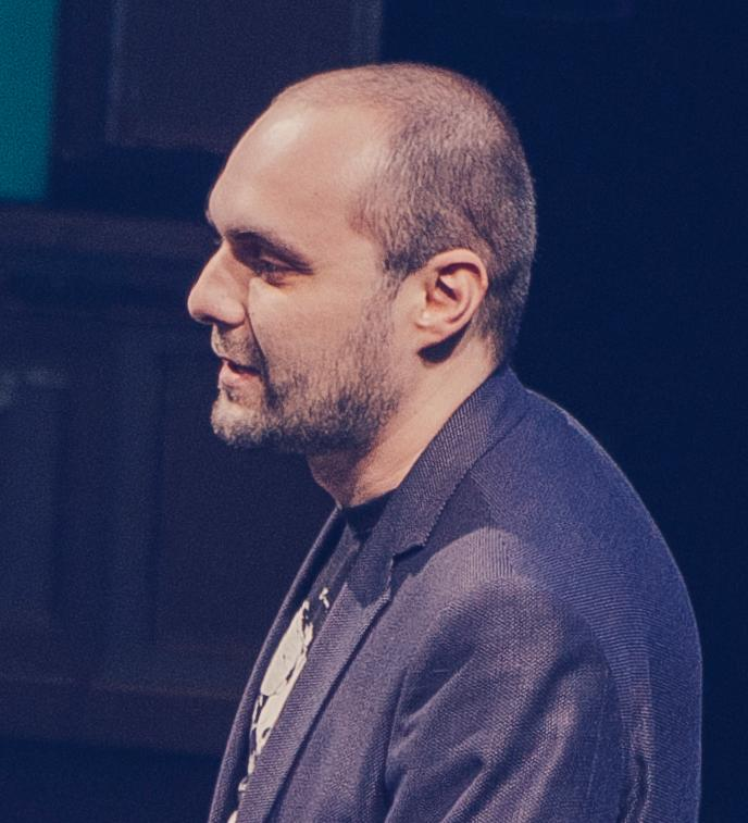 Attila Mokos